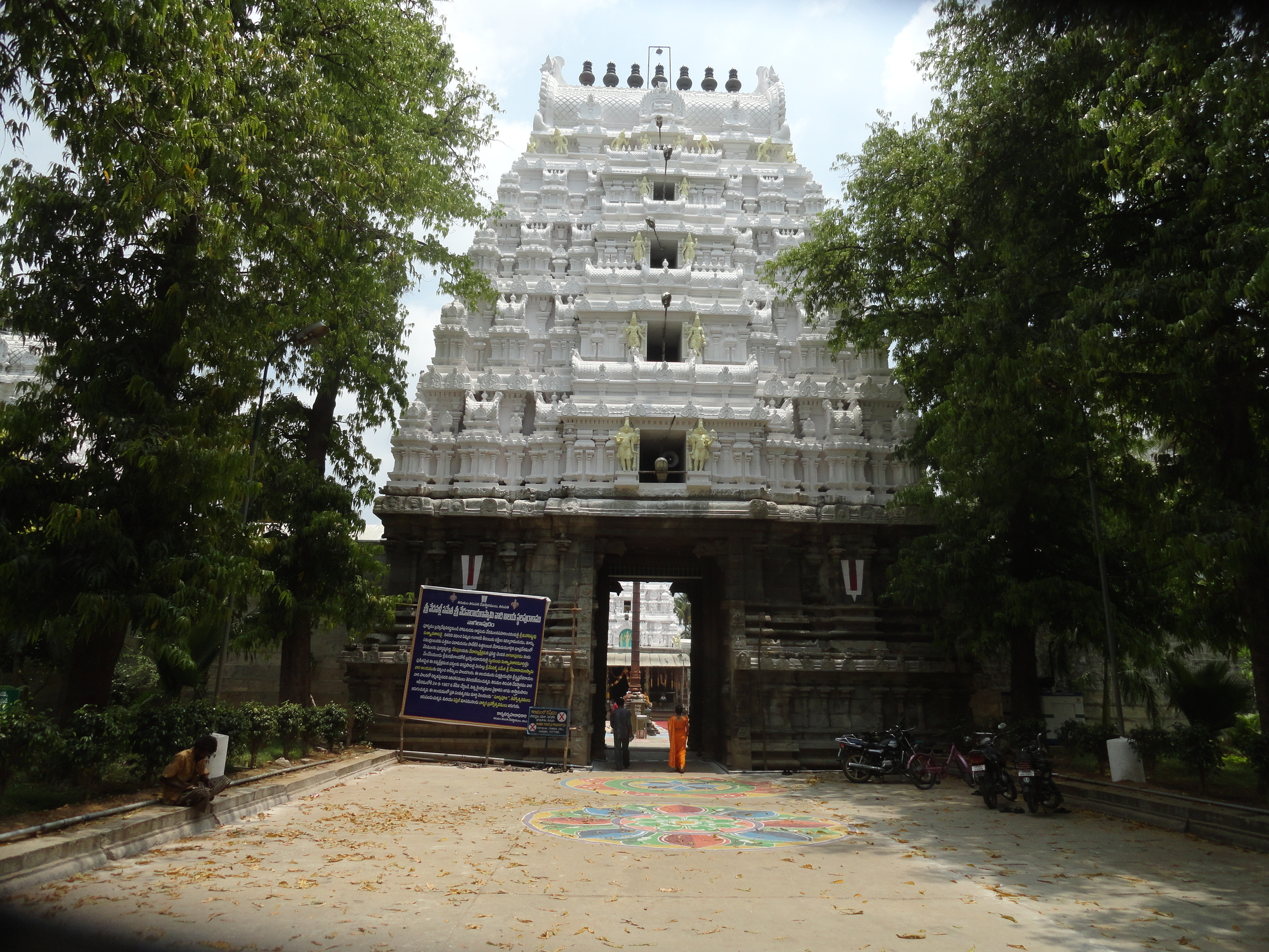 second entrance gopuram at vedanarayana swamy temple, nagalapuram